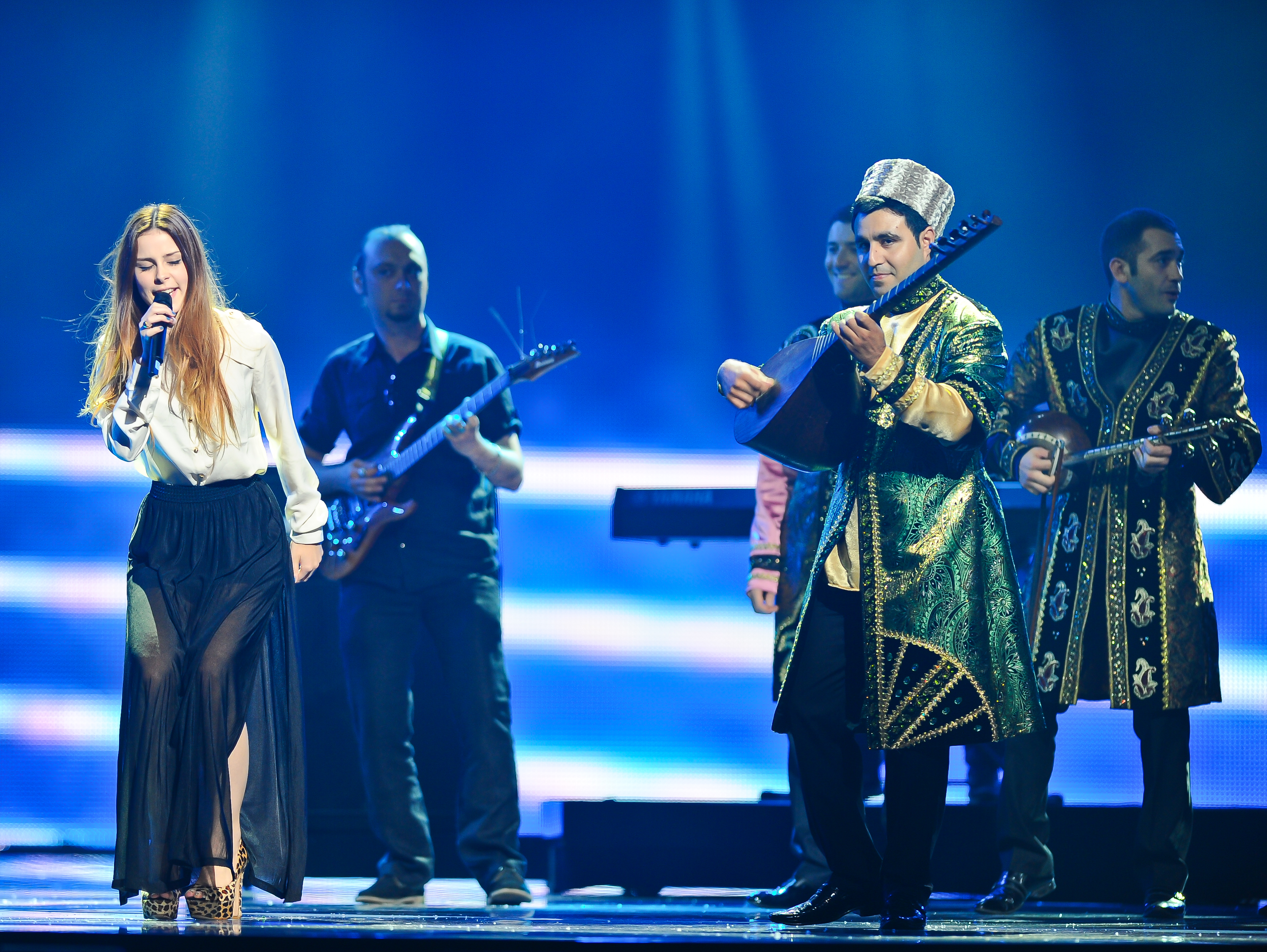 Lena Meyer Landrut in Baku Crystal Hall